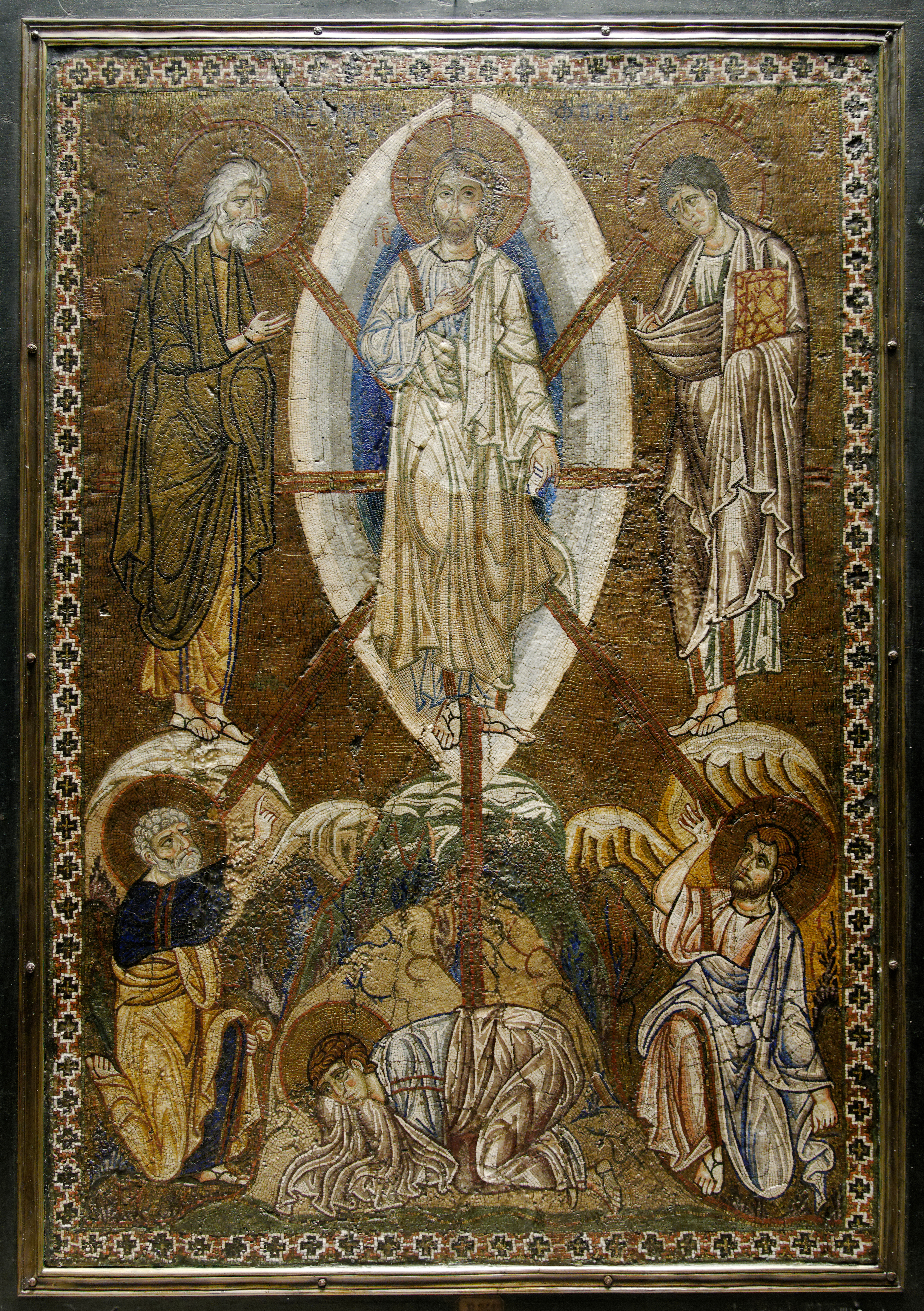 Portable icon with the Transfiguration of Christ, Byzantine artwork.